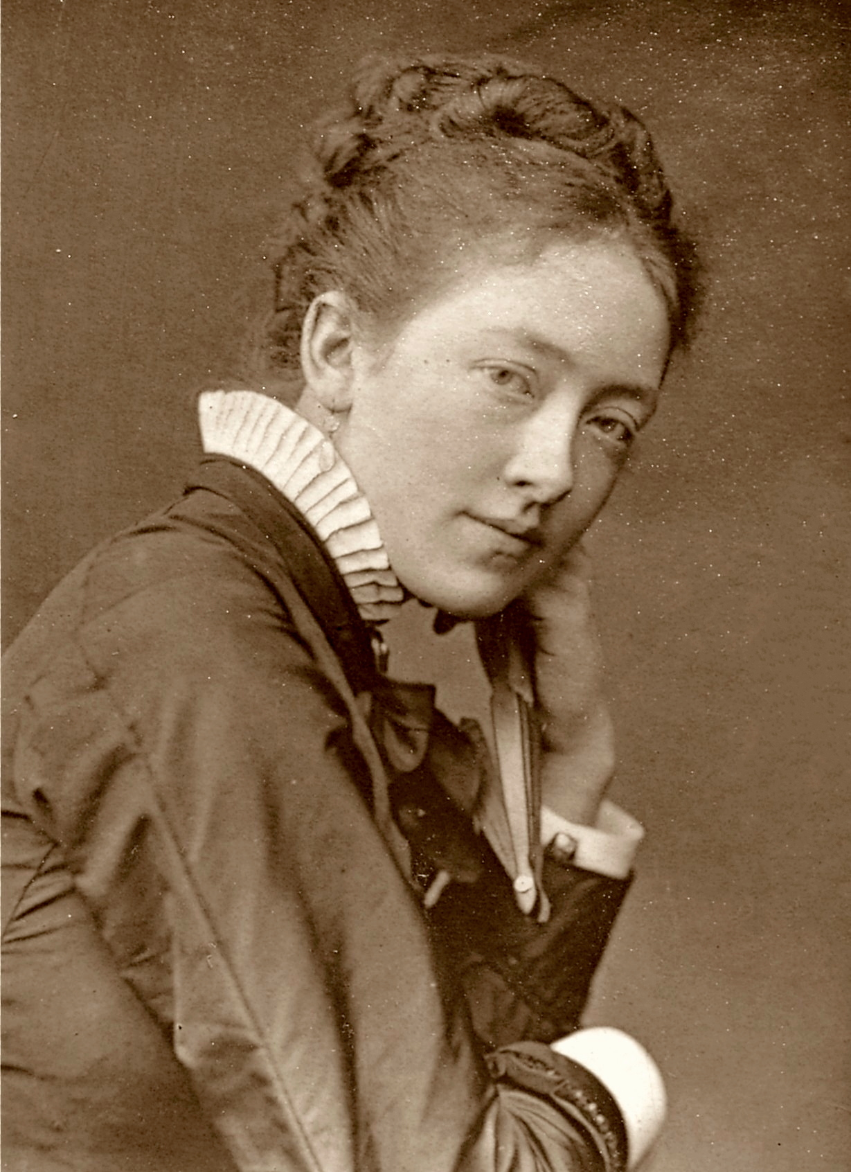 Marion Bessie Terry 1852-1930, English Actess.